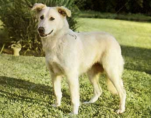 Photo of a Aidi-dog.